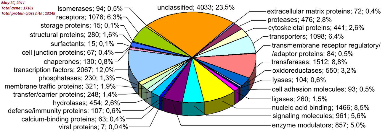 The human genome, categorized by function of each gene product, given both as number of genes and as percentage of all genes.